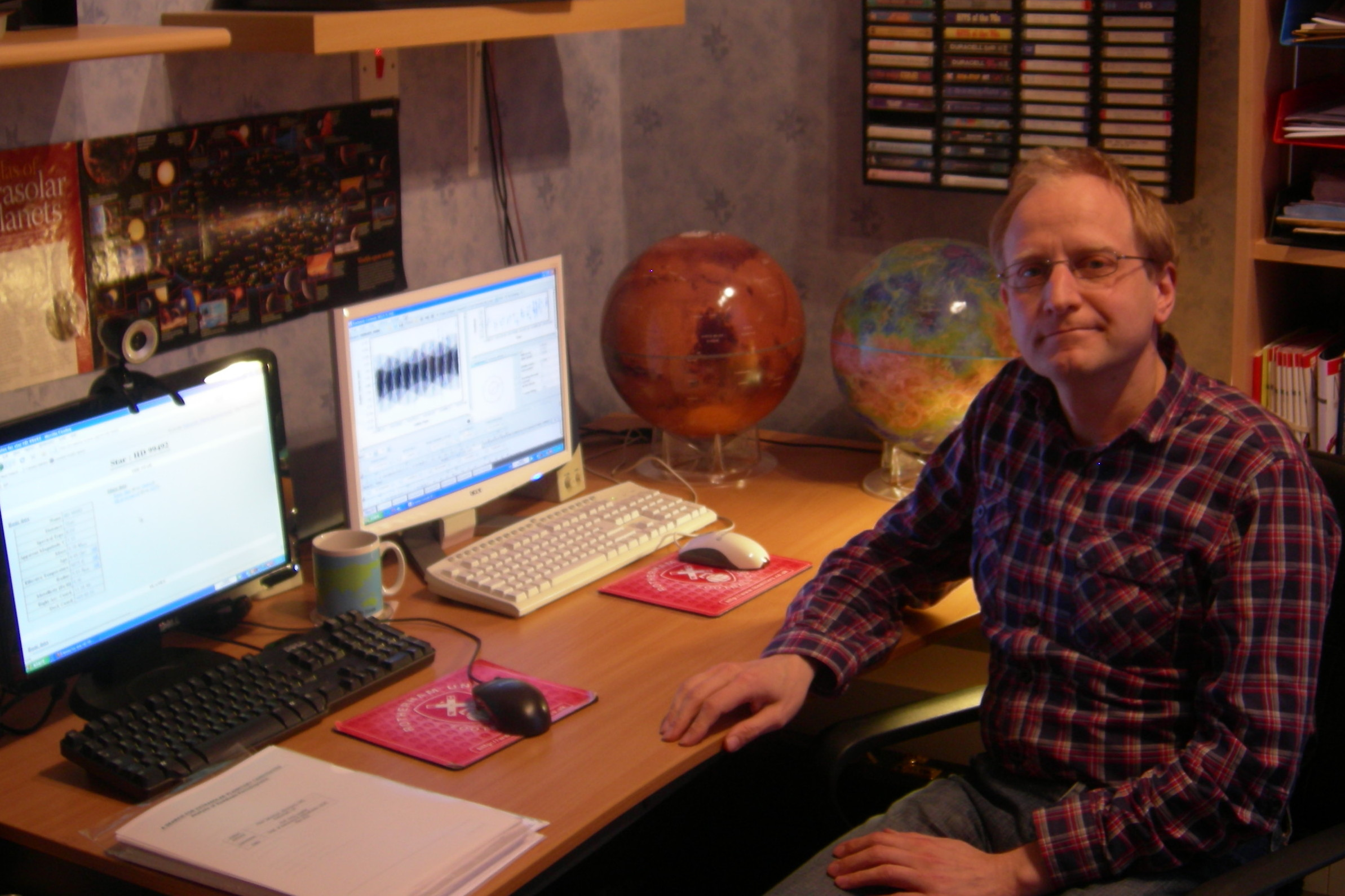 Peter Jalowiczor in his study (2010) with PCs set-up for analysis of extrasolar data.